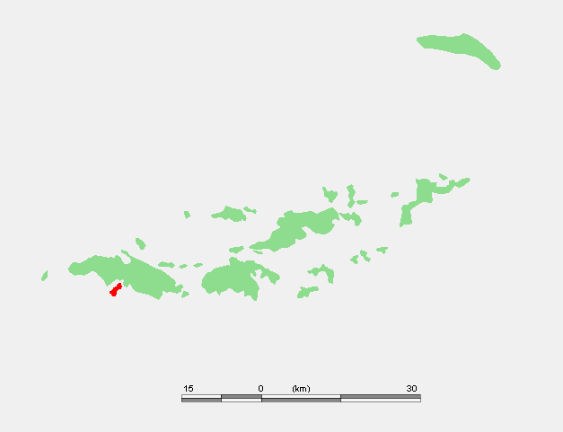 Water Island — off Saint Thomas, United States Virgin Islands.